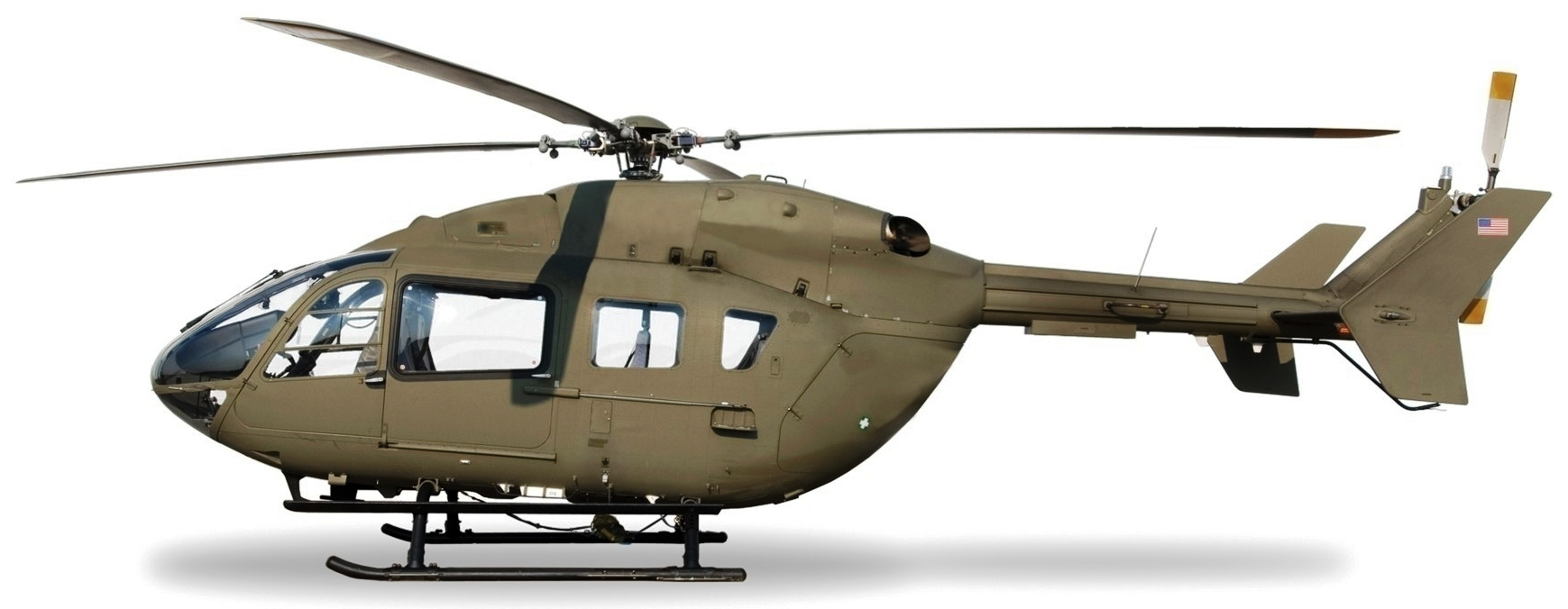 Profile of a UH-72A Lakota "Light Utility Helicopter", the American military version of the Eurocopter EC-145.